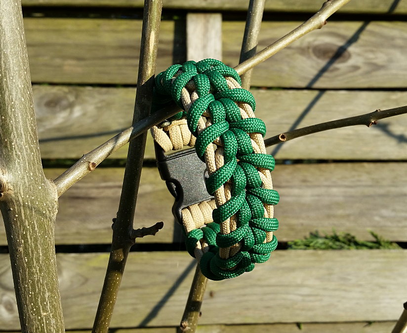 Survival bracelet with tying "Oat Spike Sinnet"